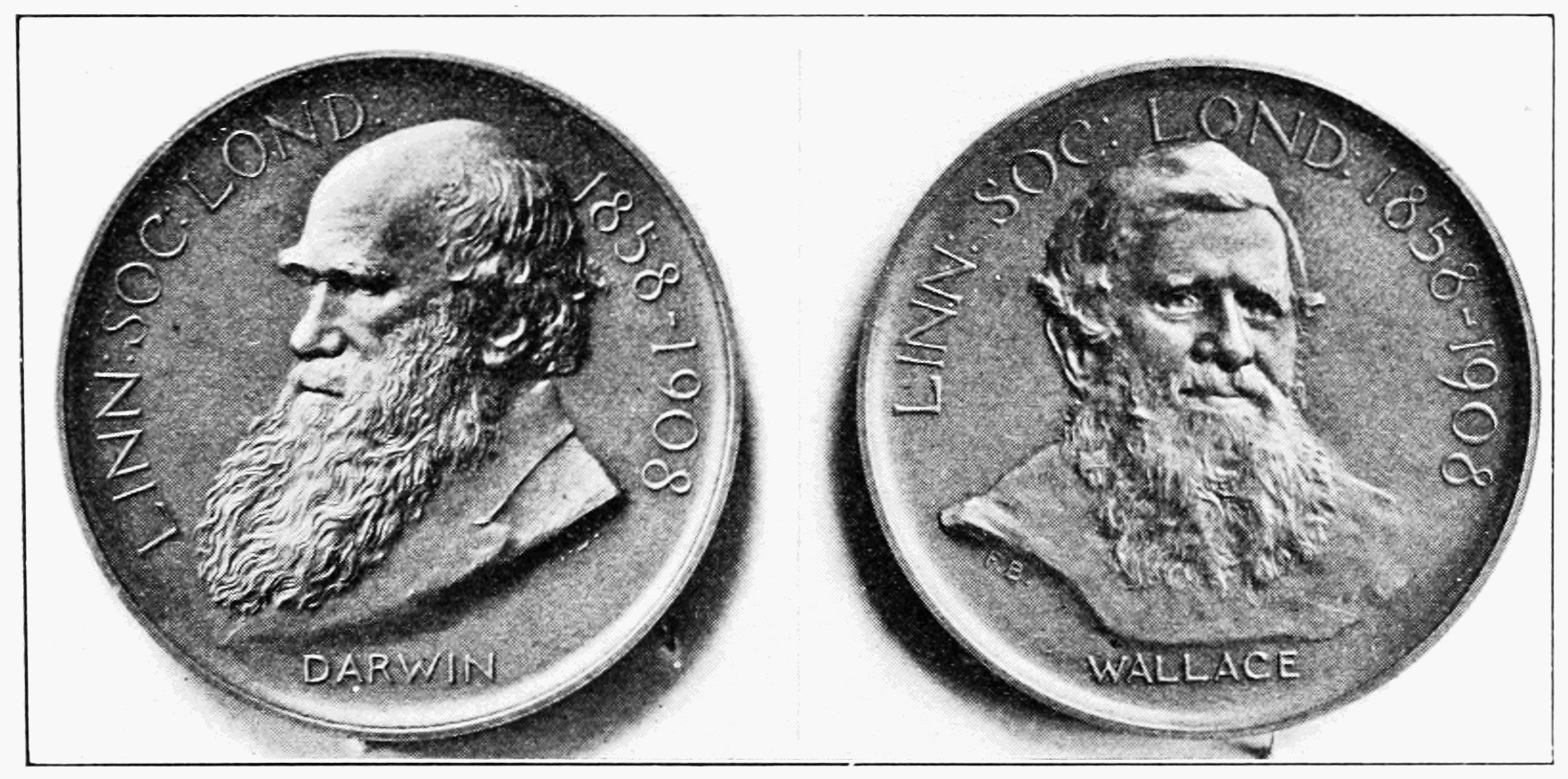 The Darwin Wallace medal of the Linnaean society